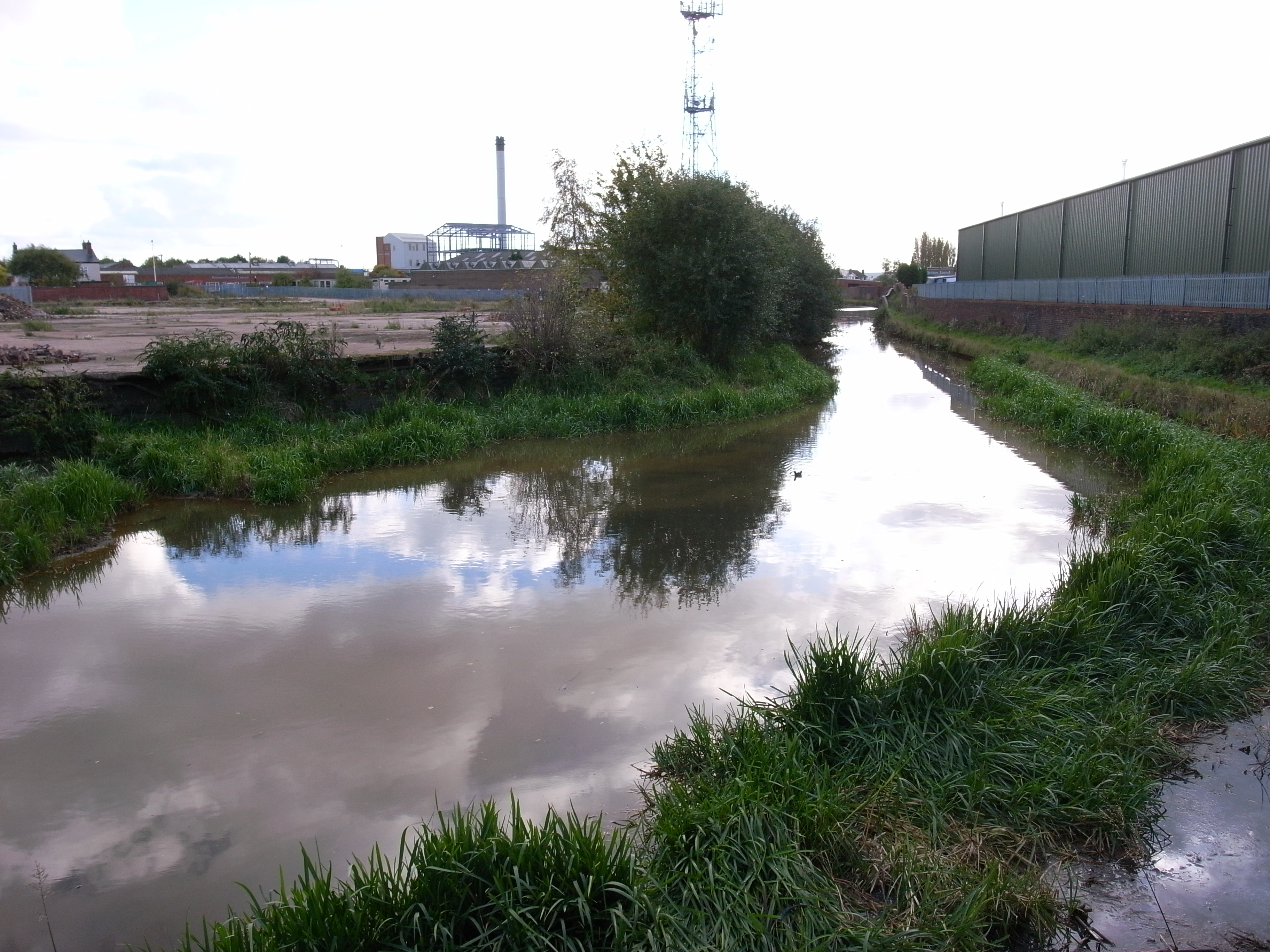 The barely navigable remains of the Wednesbury Old Canal in West Bromwich, England. It was part of the first section of the Birmingham Canal (first in the area) to open in 1869.